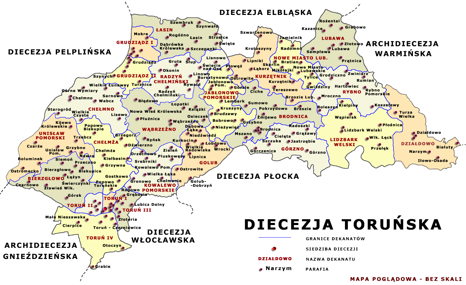 Map of catolic diocese of Toruń